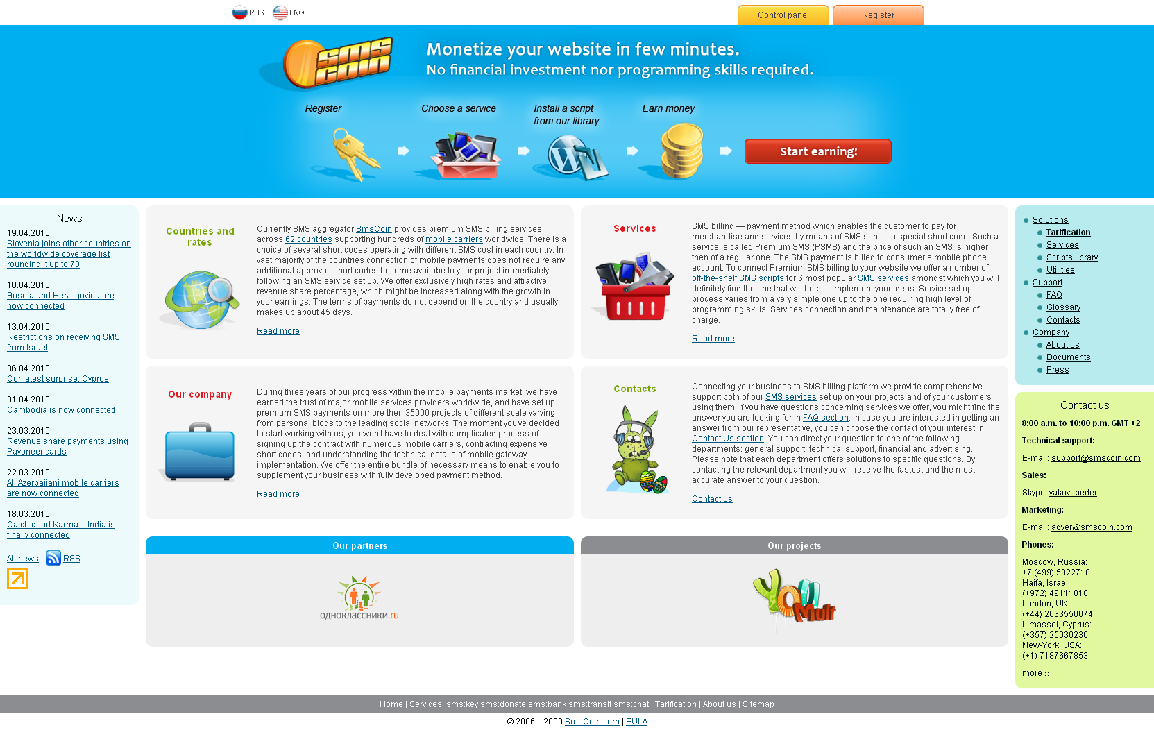 Screen shot of the main website page